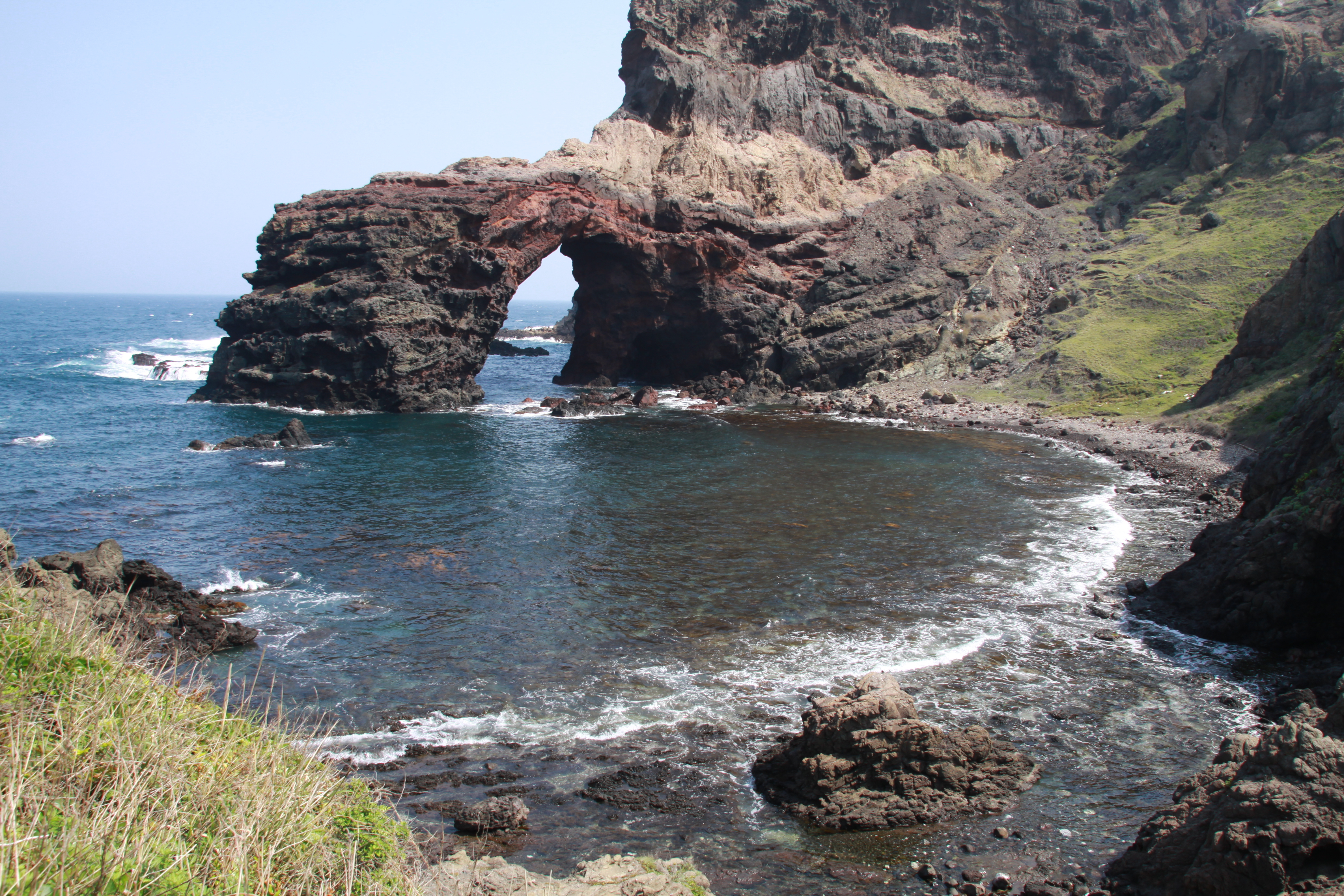 Tsūtenkyō Arch at Kuniga coast, Nishinoshima